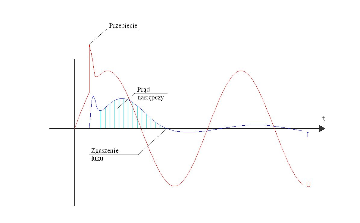 Diagram showing follow-on current